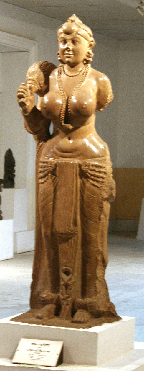 Statue of Deedarganj Yakshini at Patna Museum. From Didarganj. Polished Chunar sandstone, H. 162 cm. Ist century (?).